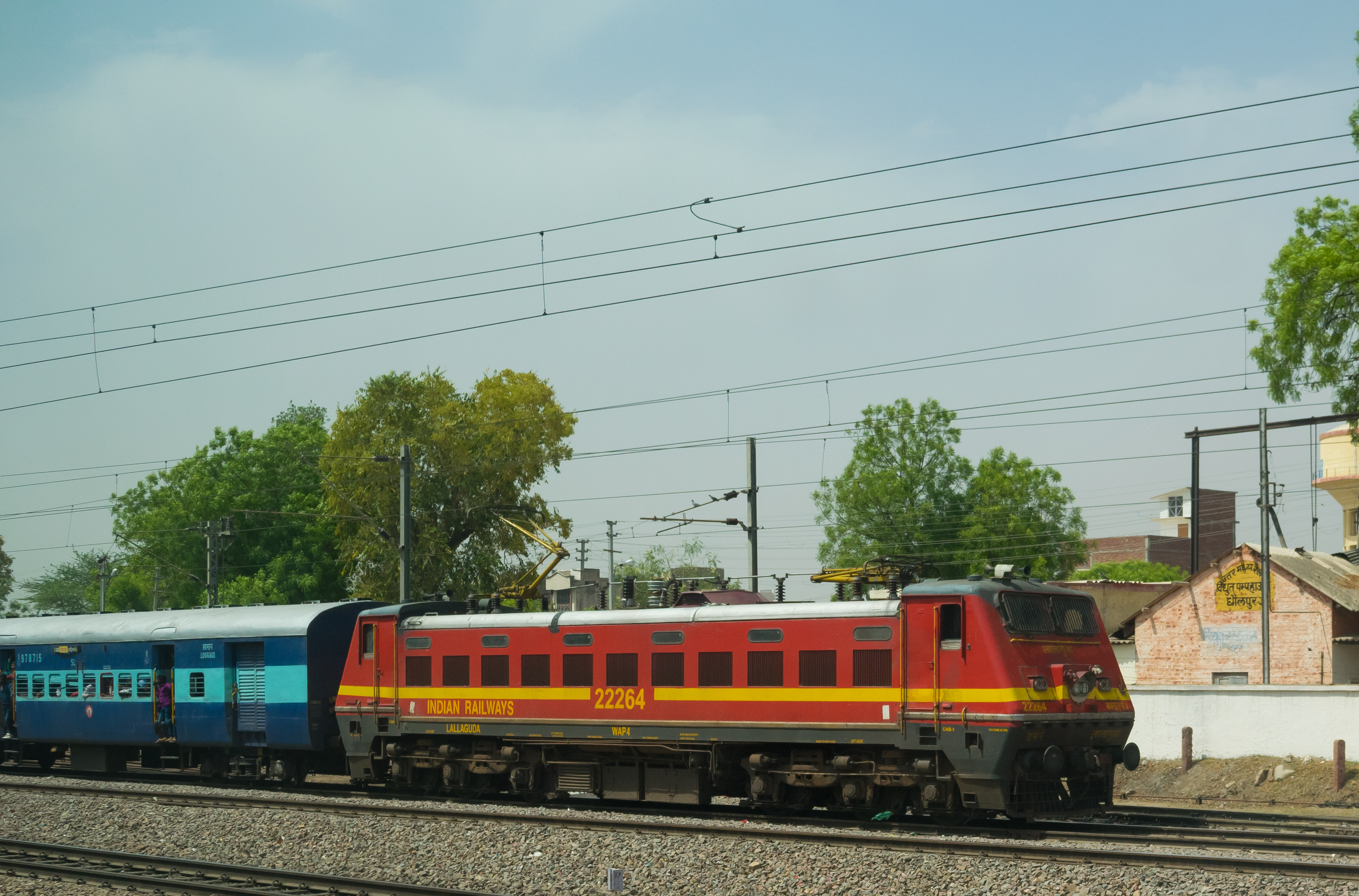 A WAP4 of Lallaguda hauling New Delhi-bound Utkal Express near Dhaulpur